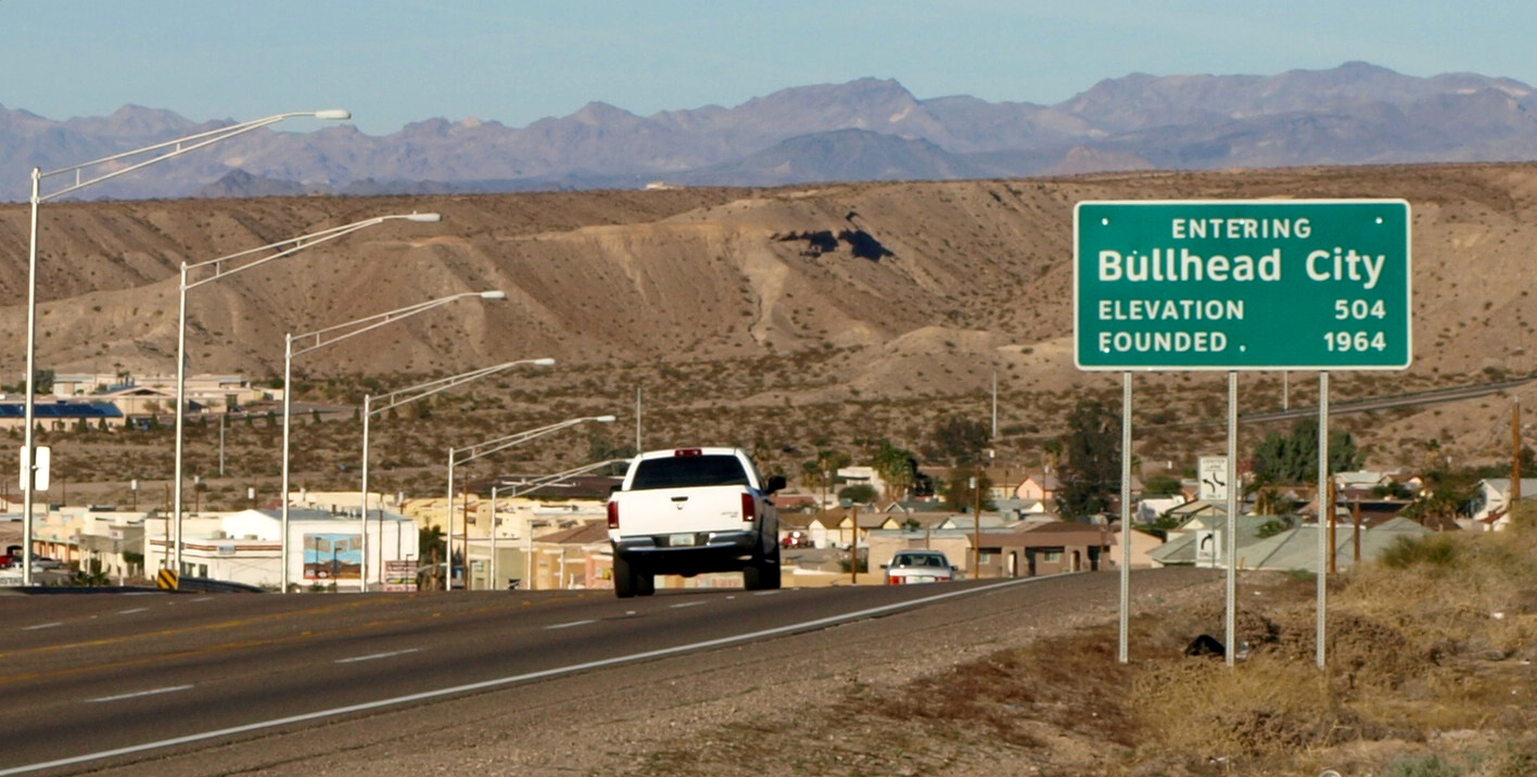 Southern city limits sign for the city of Bullhead City, Arizona as seen from the northbound lane of State Route 95 (Mohave Valley Highway) near East Sterling Road. View looking northeast.This photograph was taken with an Olympus E-510 DSLR camera and edited (brightness, contrast, saturation) using ArcSoft PhotoStudio 5.5)